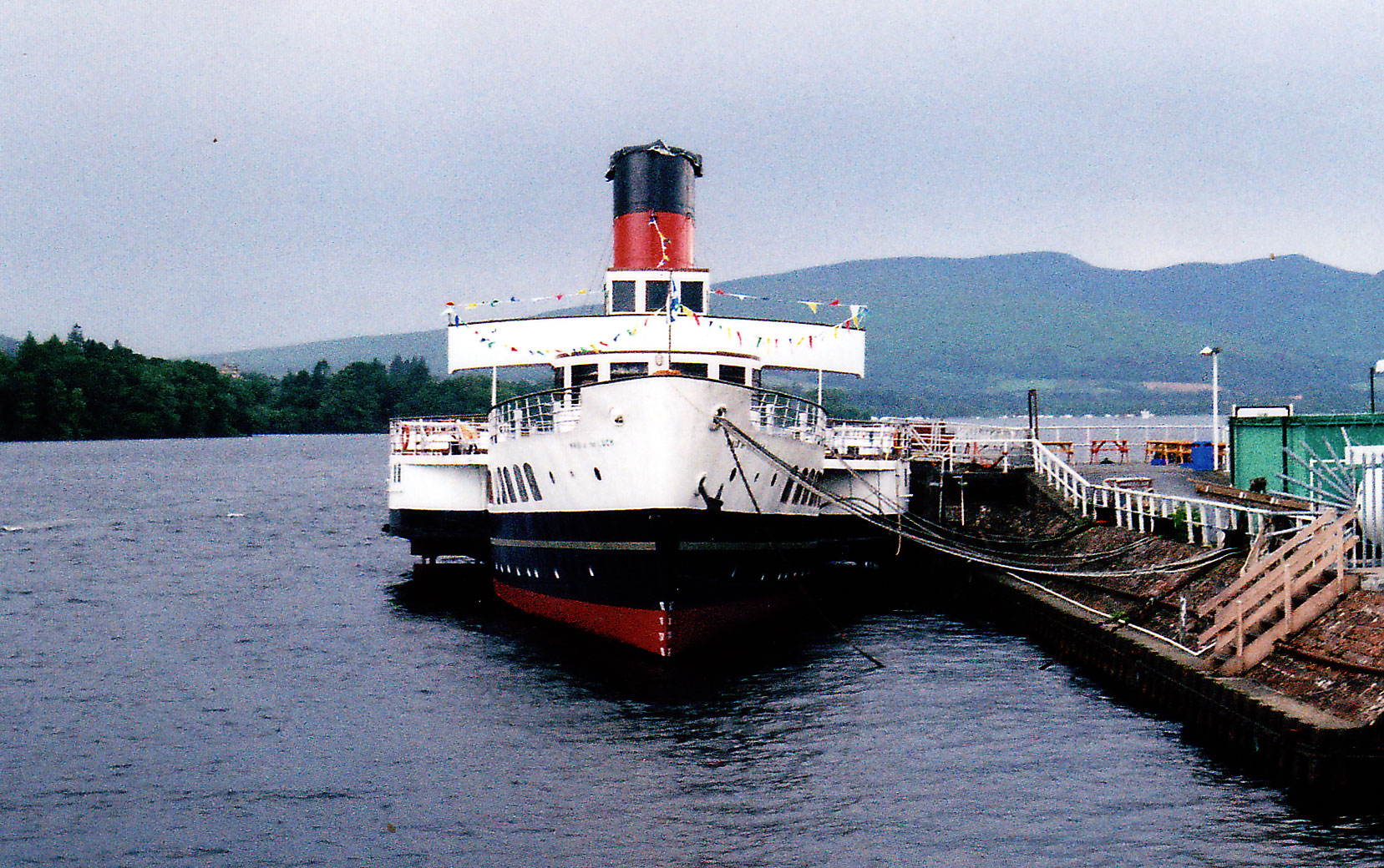 PS Maid of the Loch at the pier at Balloch, Loch Lomond where it is undergoing restoration. Photograph taken in 2004 by User:Dave souza. Any re-use to contain this notice and to attribute the work to User:Dave souza at Wikipedia.